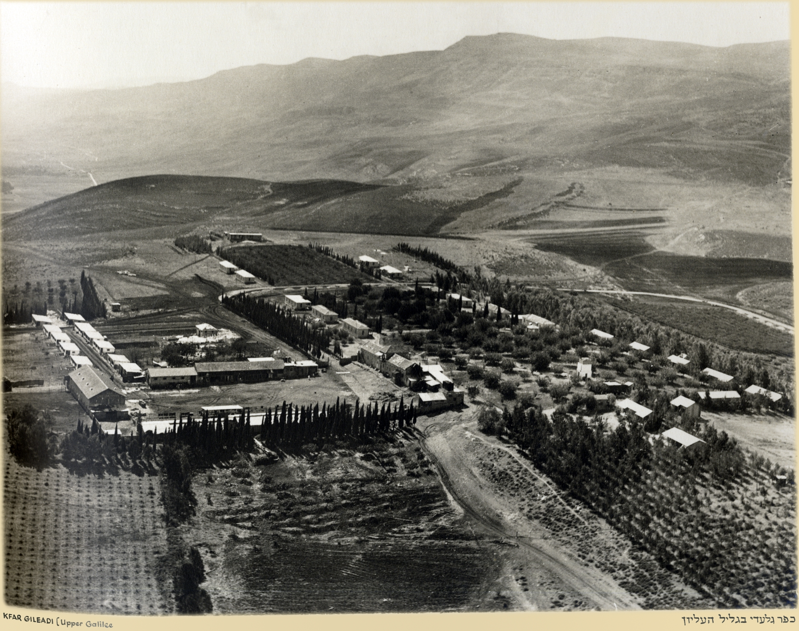 Z. Kluger. Erez Israel from the air - 1937-38